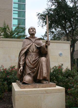 St. Ignatius statue at Strake Jesuit in Houston, USA